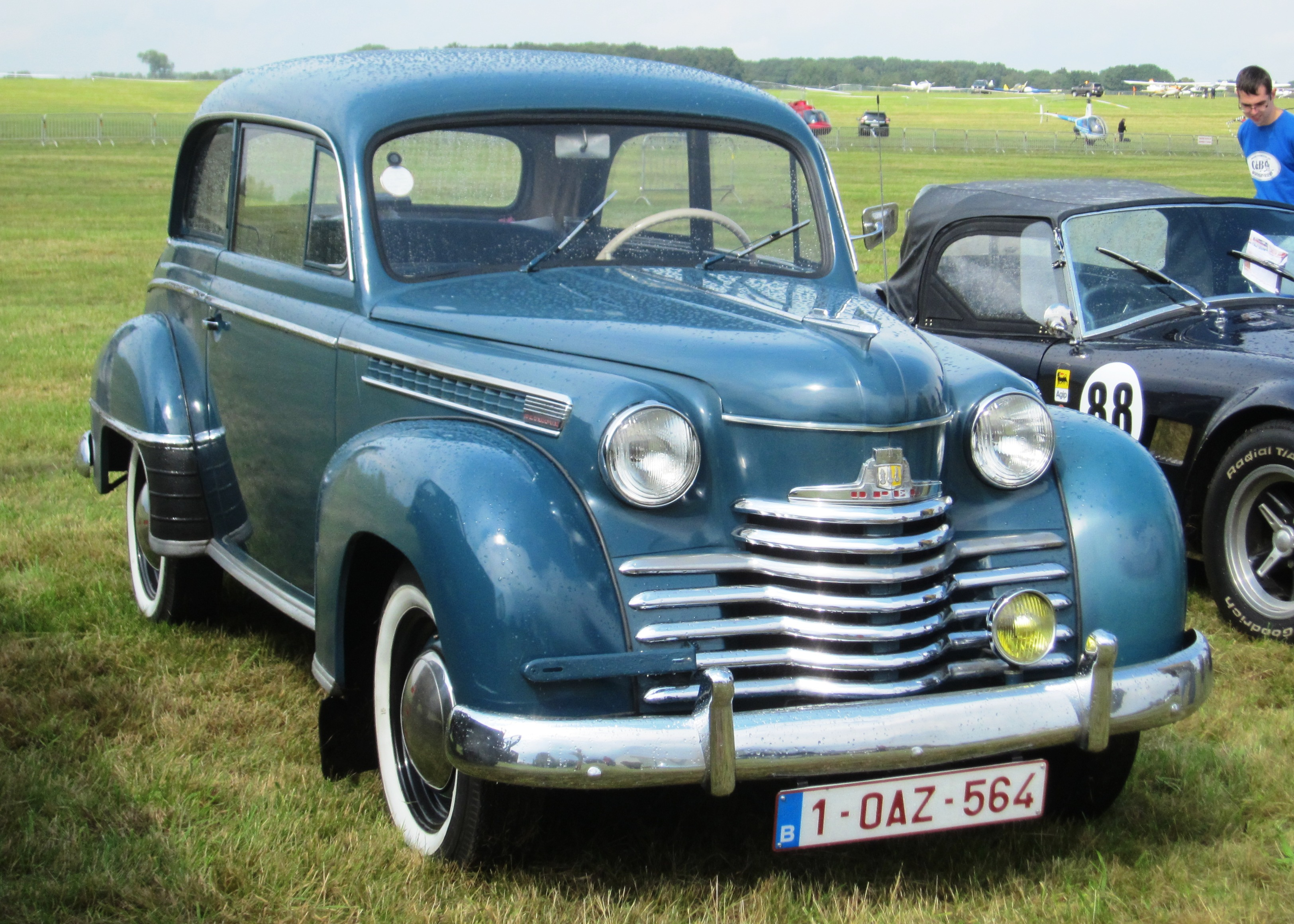 Opel Olympia (ca 1952)